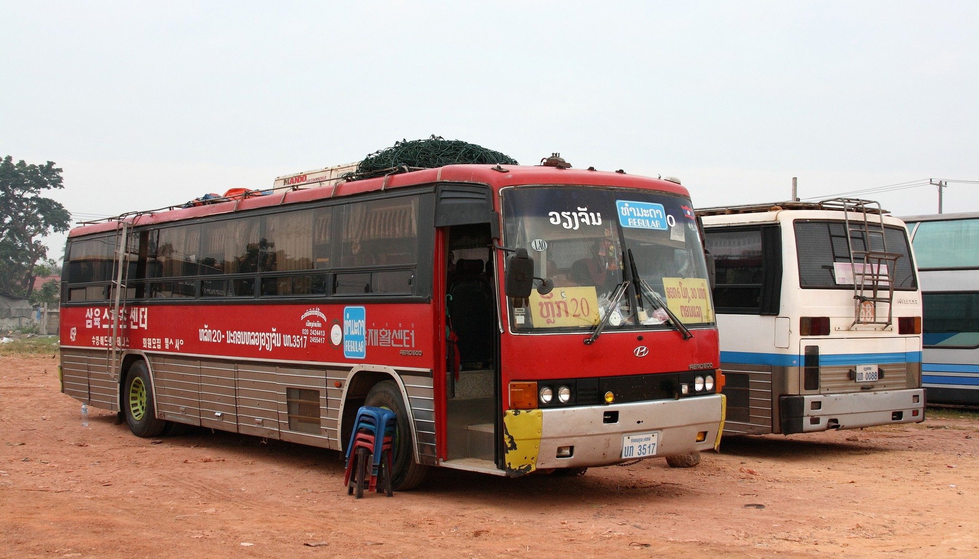 Hyundai Aero 600 buses at the Vientiane Southern bus terminal